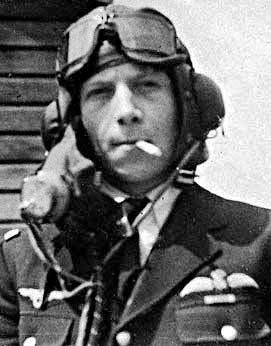 Portrait of Adjutant Emile Fayolle, Free French pilot in the RAF. He fought the battle of Britain and was shot by AA in August 1942.